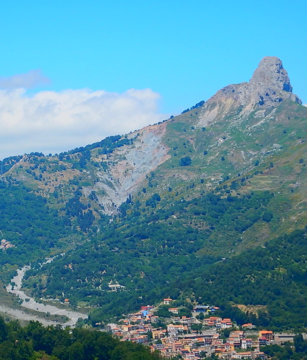 the Sphinx looking, the Rocca Salvatesta over Fondachelli Fantina at midday, Sicily